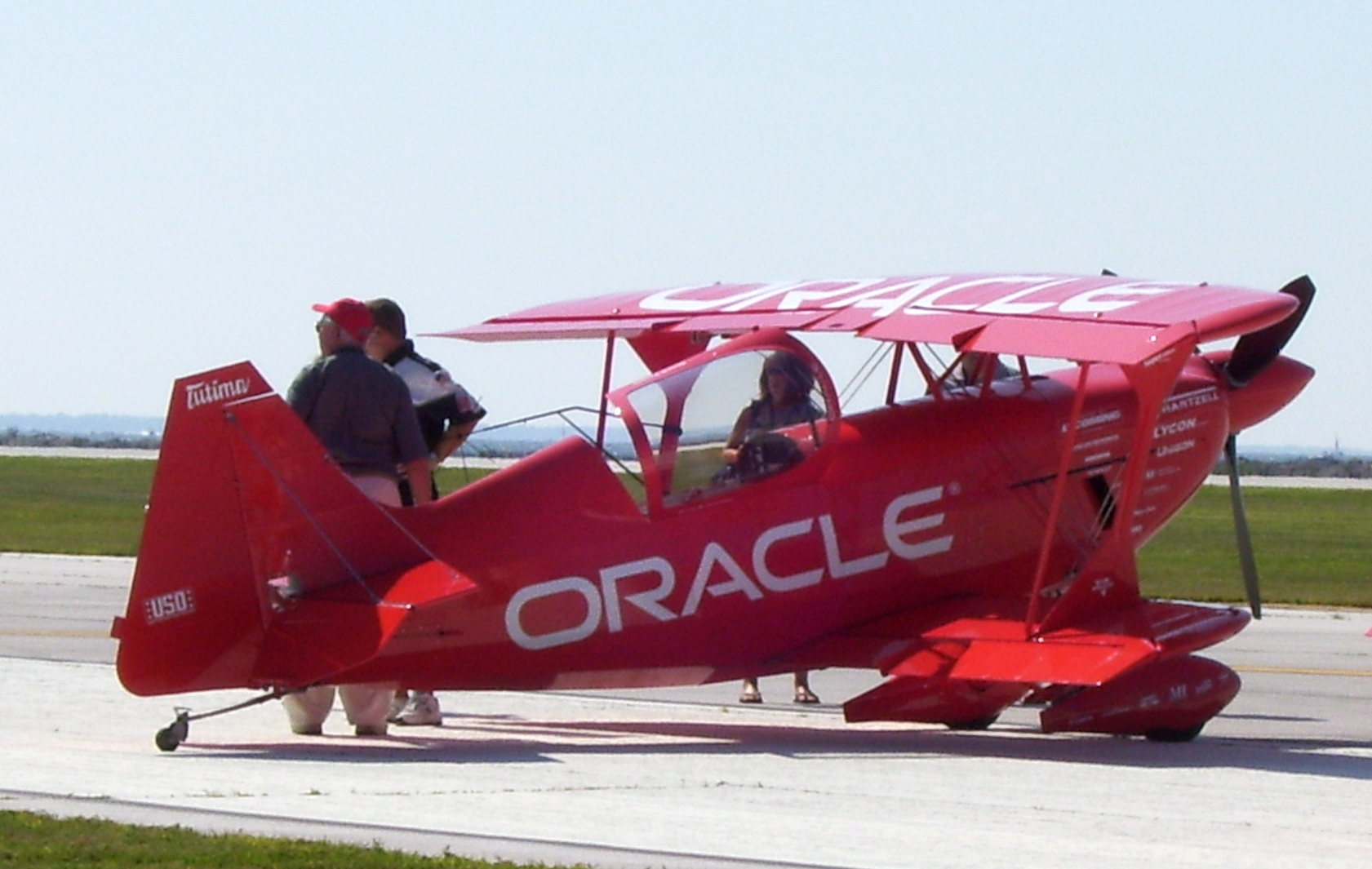 Sean D. Tucker's biplane, the Oracle Challenger II, on the ground at the 2008 Cleveland National Air Show at Cleveland Burke Lakefront Airport